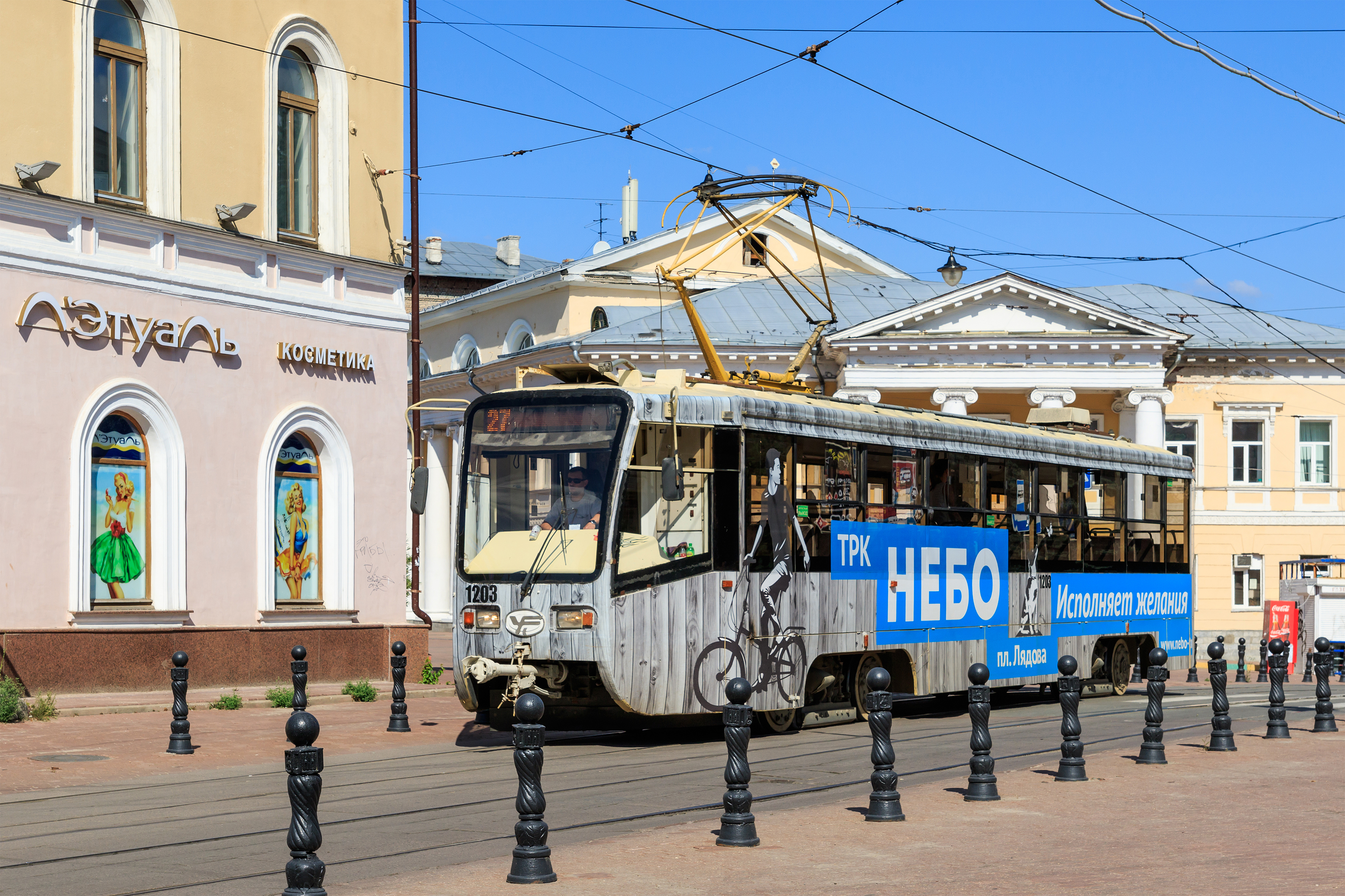 71-619KT tram at Oktyabrskaya Street. Nizhny Novgorod, Russia.